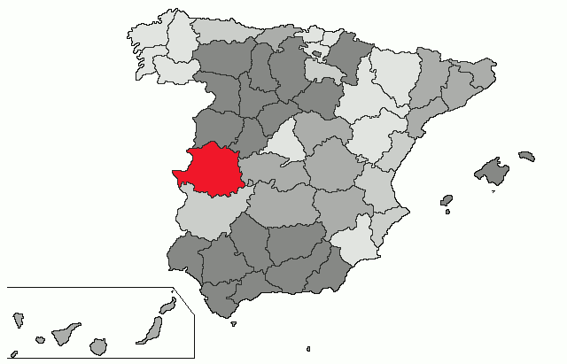 ES: Provincia de Cáceres EN: Province of Cáceres Based in: Image:ProvPont.jpg Source: Designed by Leoplus. Original picture, designed by Sobreira.